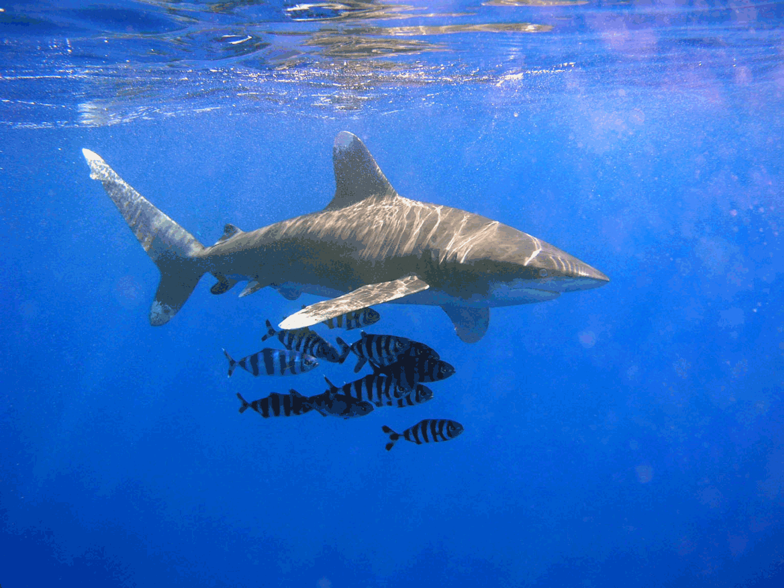 An image of the Oceanic Whitetip Shark (Carcharhinus longimanus) and Naucrates ductor. The photo was taken on 5 November 2003 at Elphinstone Reef in Egypt in the Red Sea. The photo was released under the GFDL license by Thomas Ehrensperger of